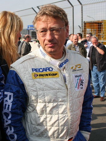 F1 architect Hermann Tilke in a racing suit.